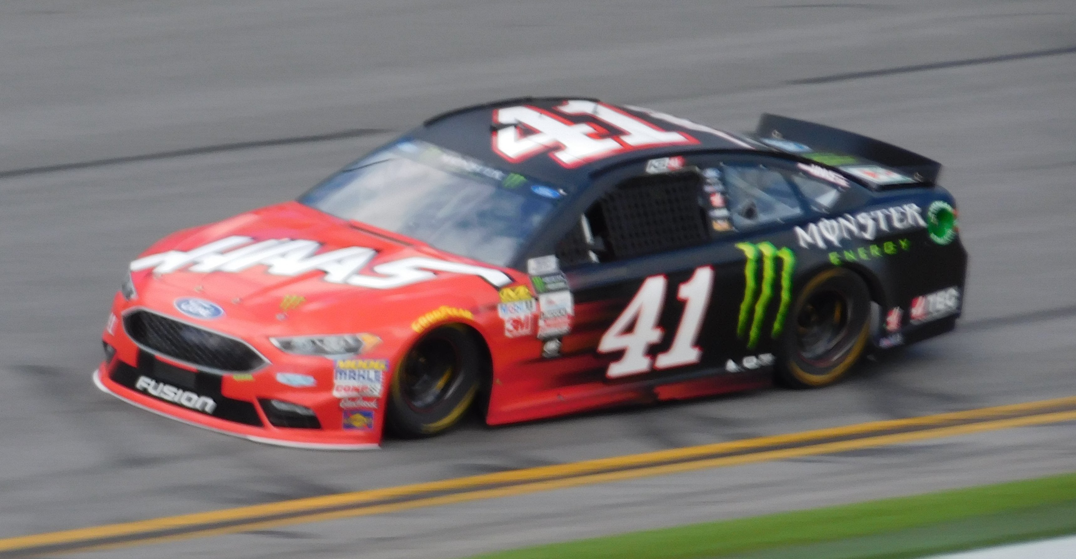 Kurt Busch - the eventual winner of the 2017 Daytona 500.